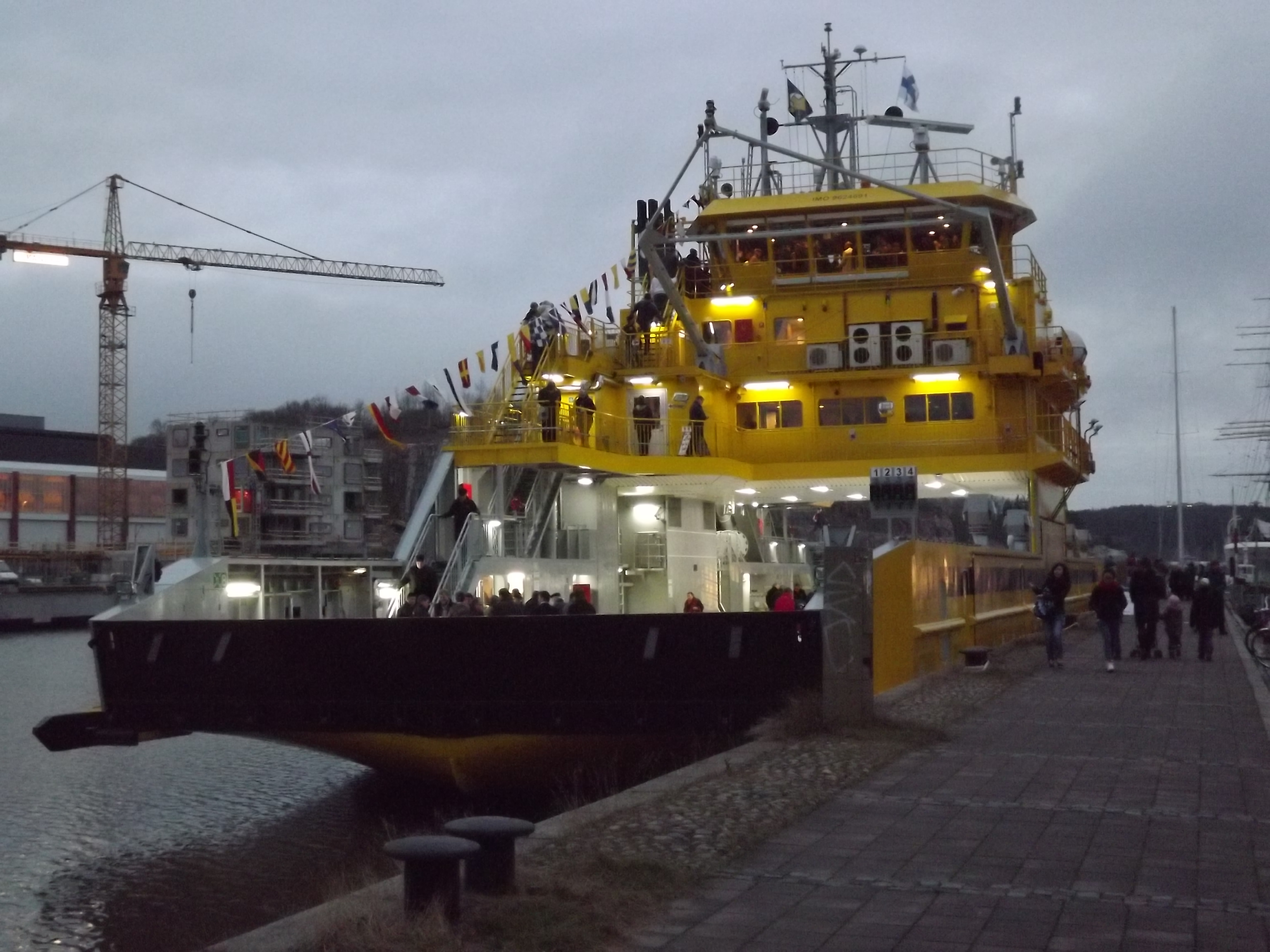 The ferry Stella, built for the route Korpo–Houtskär on display in Turku after being completed at the STX Raumo yard. In the background apartment buildings are built at the former Wärtsilä yard site.